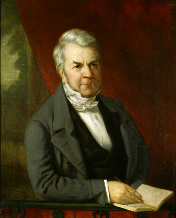 Portrait of Joseph Gales by George Peter Alexander Healy, completed ca. 1840.